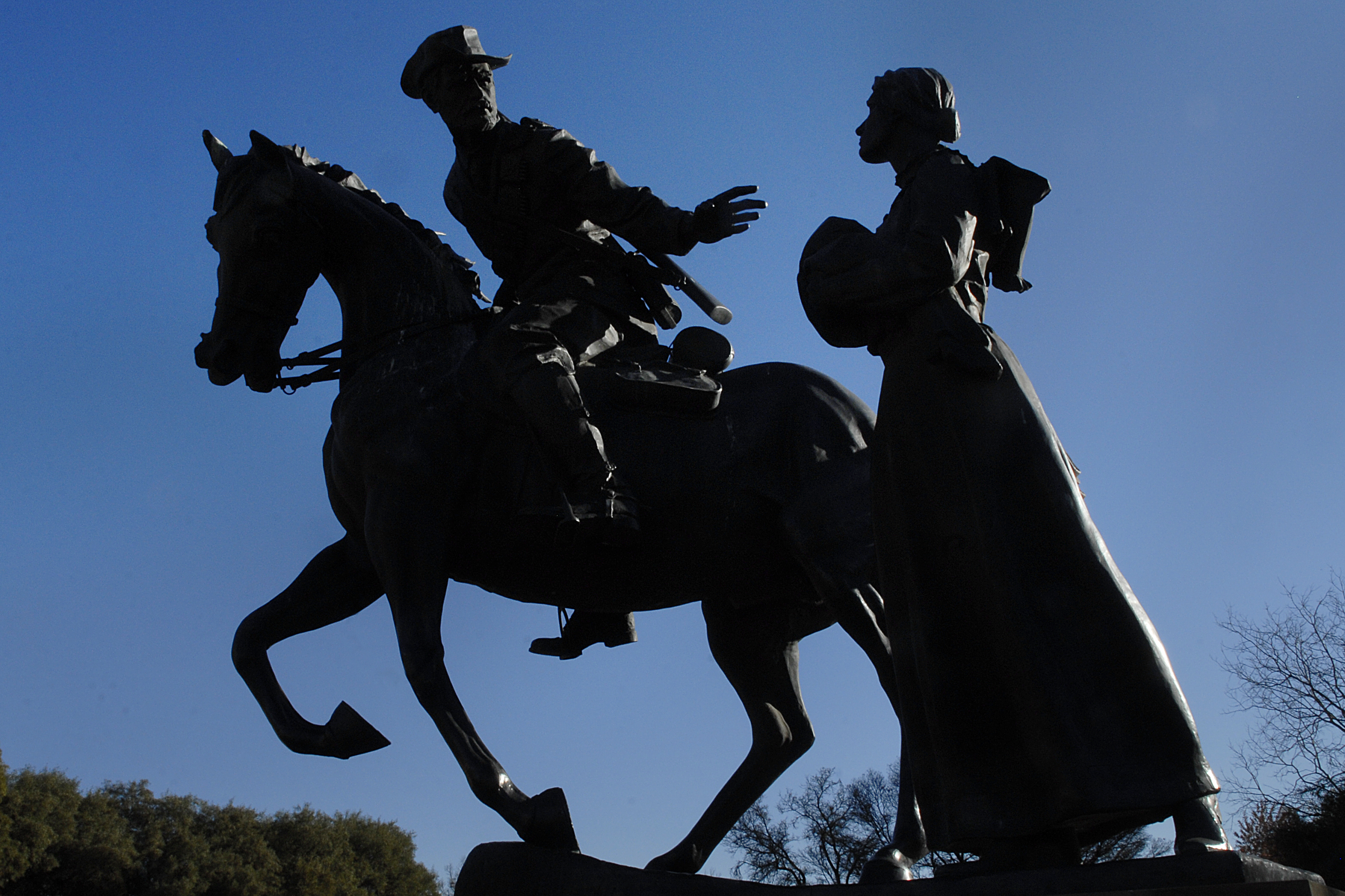 Sillhouette of one of the statues